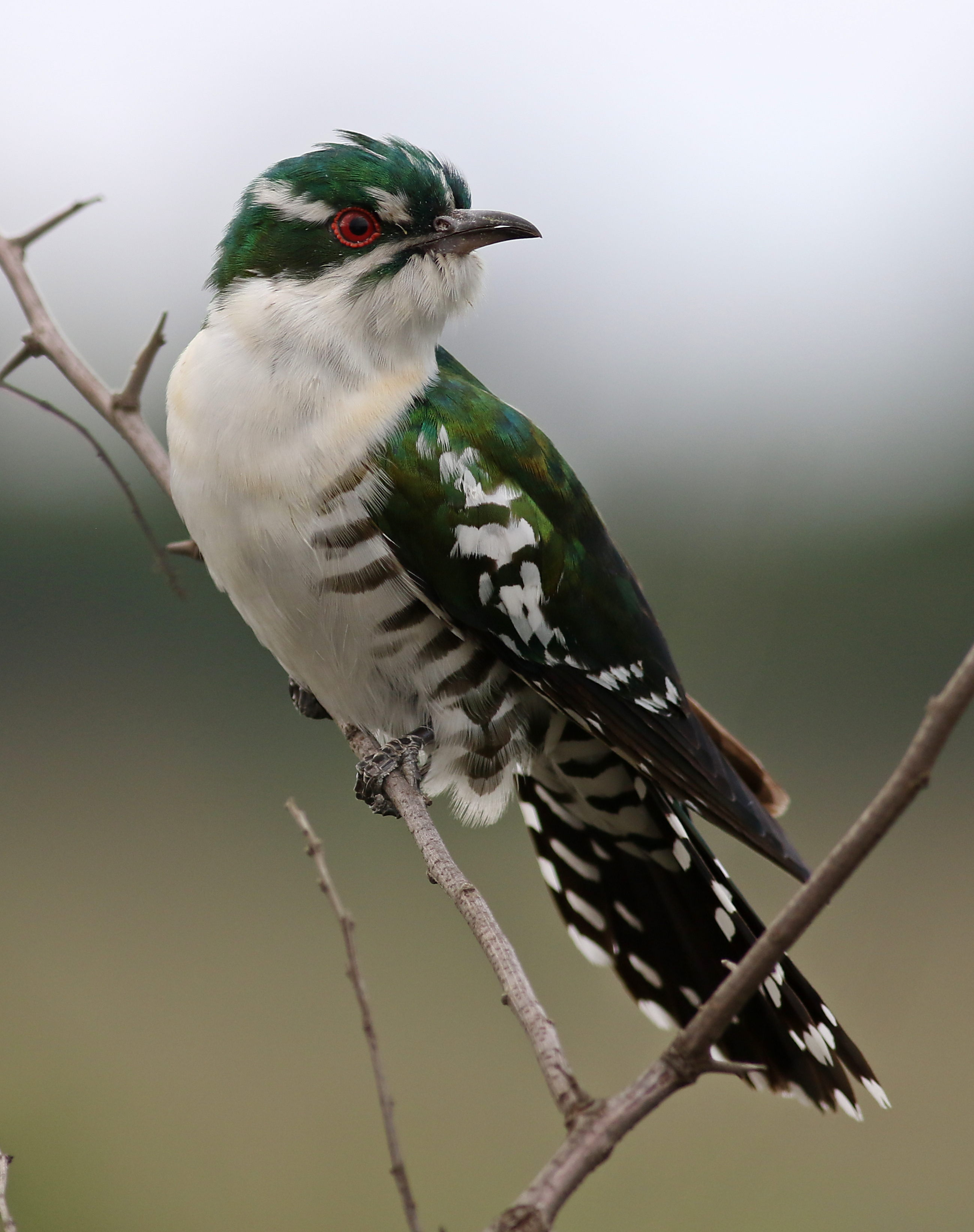 Diederik cuckoo, Chrysococcyx caprius (male), at Rietvlei Nature Reserve, Gauteng, South Africa